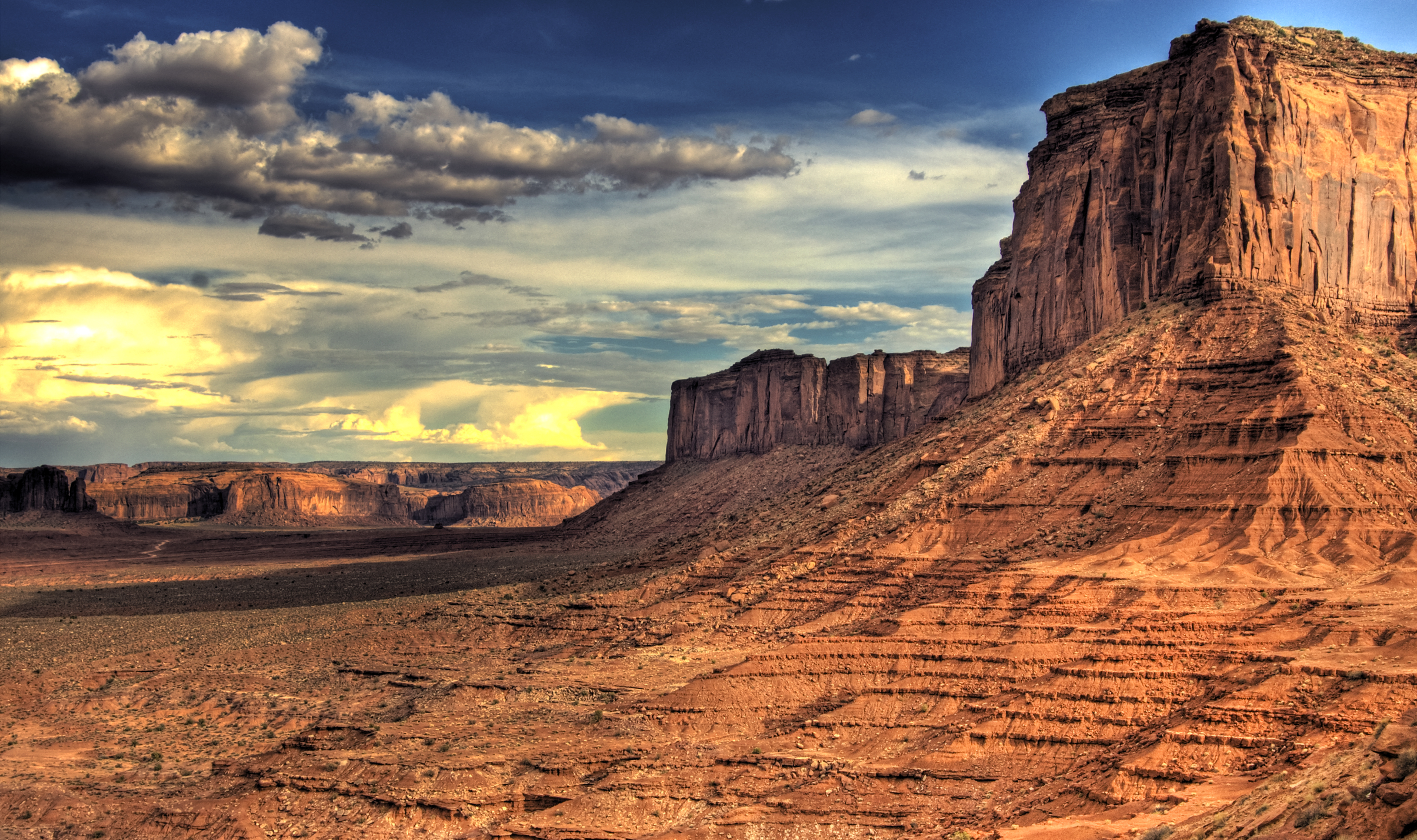 Klick here for a large view! Monument Valley